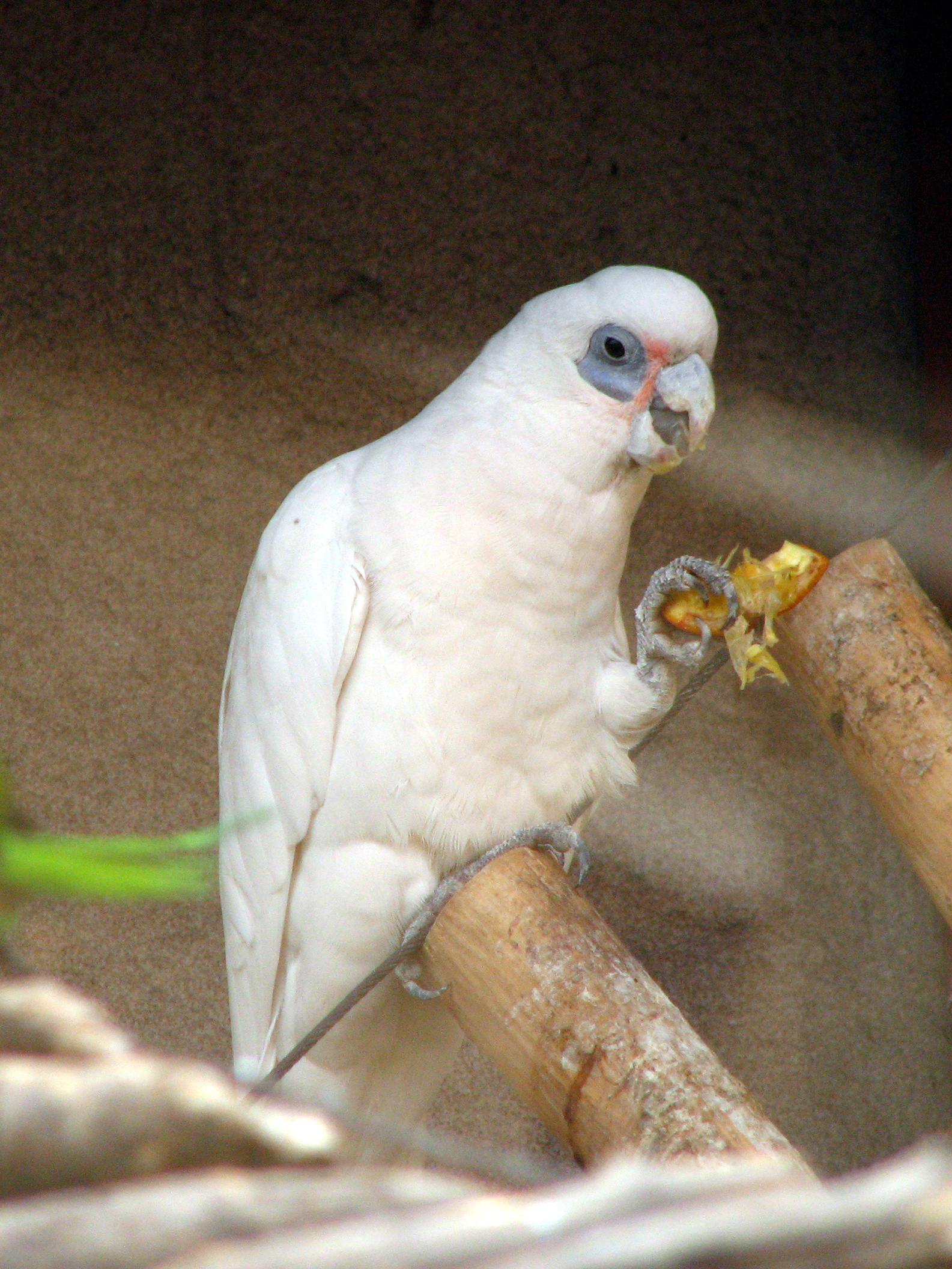 Moscow Zoo. The cockatoo eating fruit (Little Corella, Cacatua sanguinea)